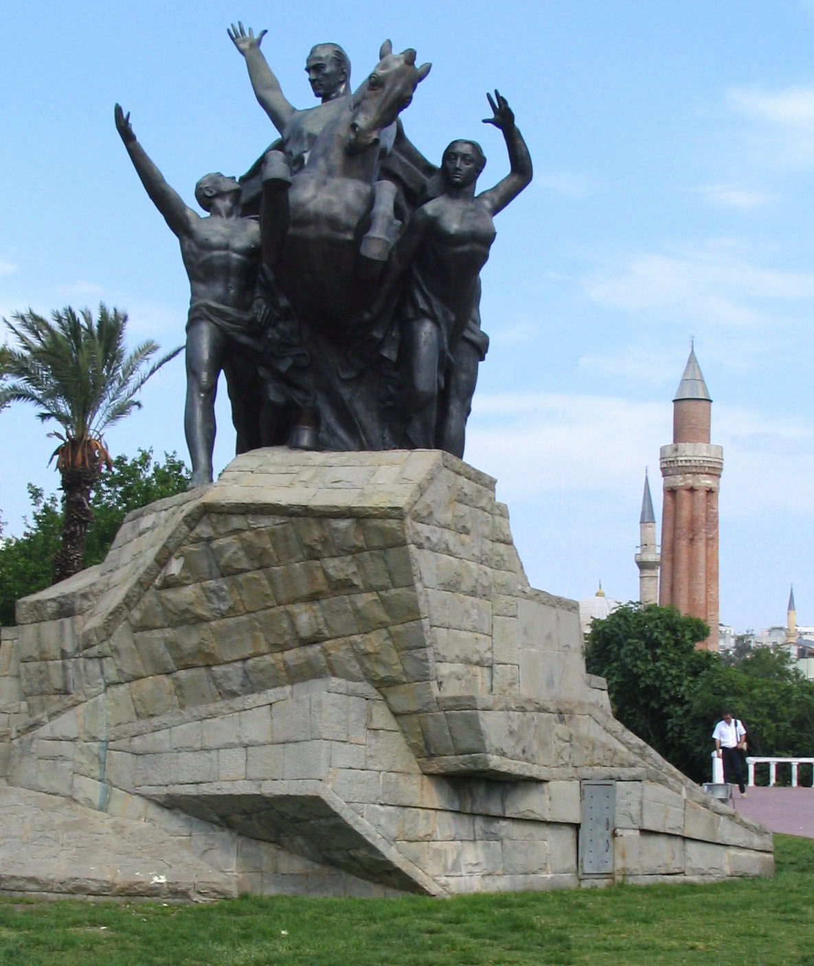 Atatürk statue by Hüseyin Gezer in Cumhuriyet Meydani in Antalya, Turkey. May 2006. Photo by Winstonza talk